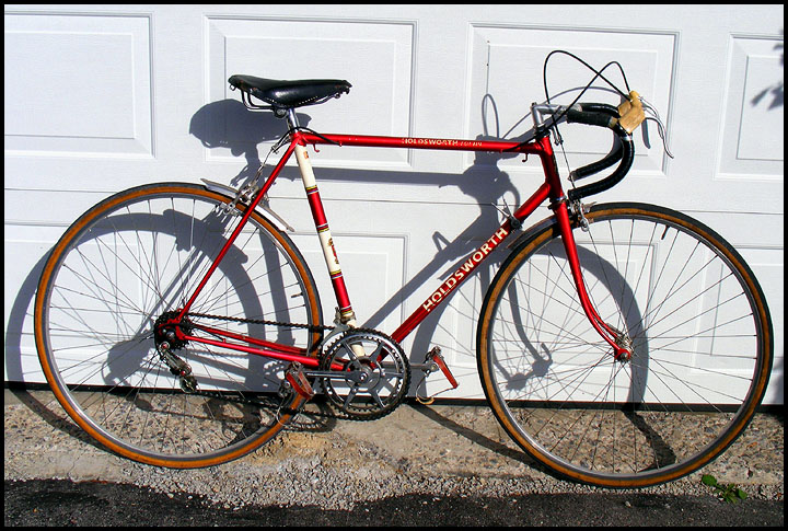 Holdsworth Bicycle-early 70's [foto by P.B.Toman]